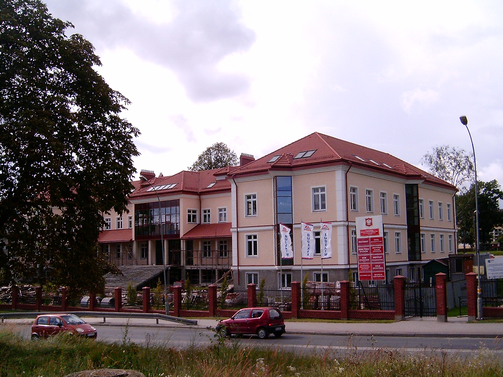 Jarosław,Pruchnicka street